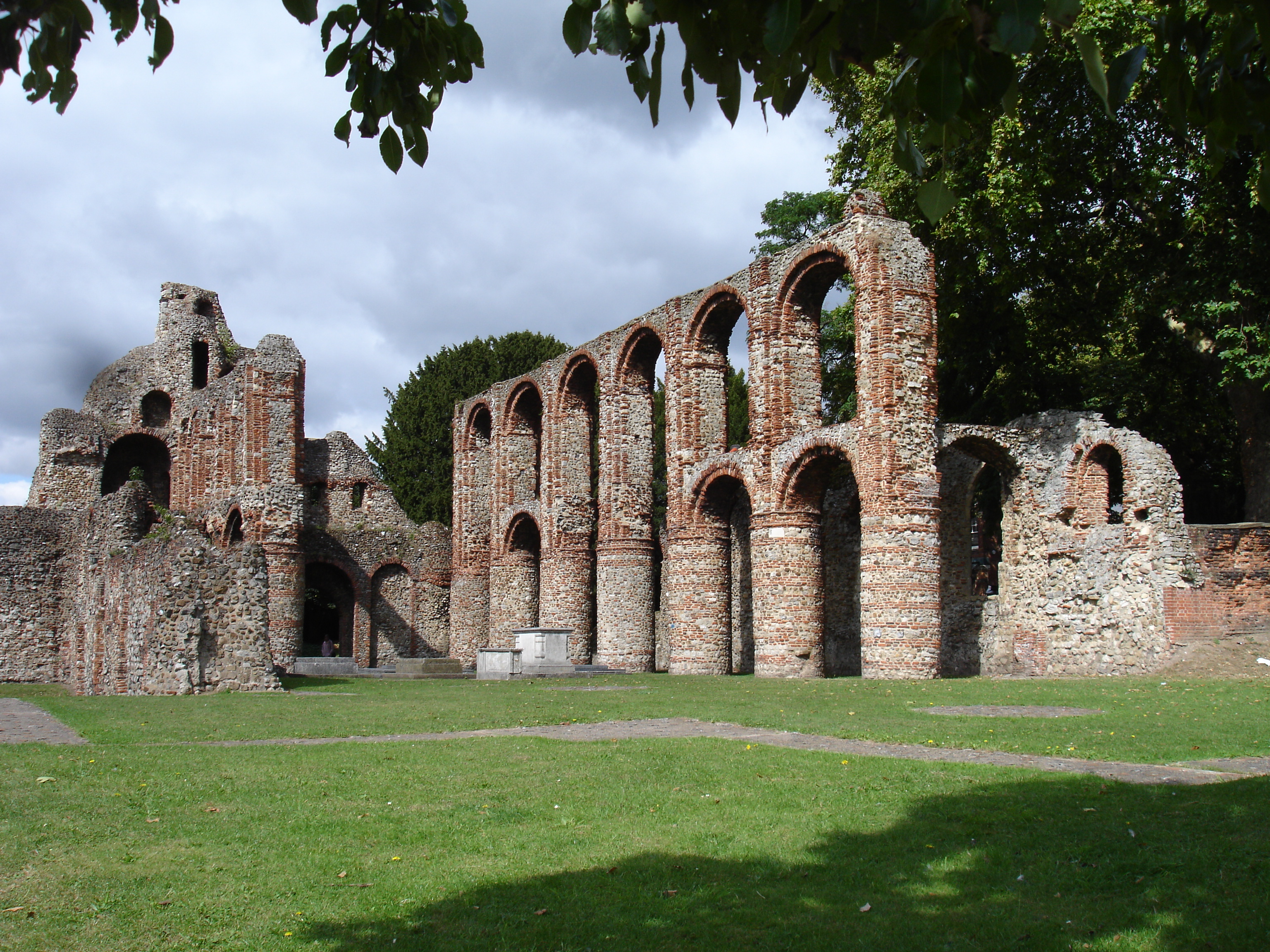 Photograph of the remains of St Botolph's Priory, Colchester, Essex, England